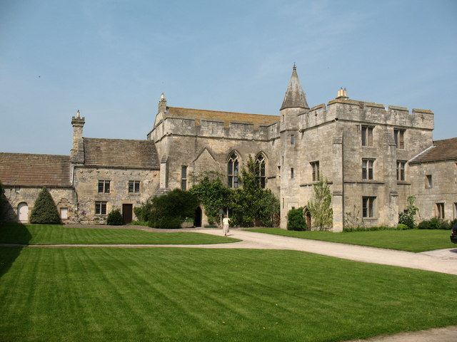 Markenfield Hall A view across the courtyard towards the block containing the great hall, chapel etc. A blocked first floor archway to the left of the lancet windows indicates the original entrance via an external staircase to the great hall, whilst the pepperpot roof to the right is above the medieval chapel. The house was begun around 1280 and Sir John Markenfield was given licence to crenellate in 1310 by King Edward 2nd.